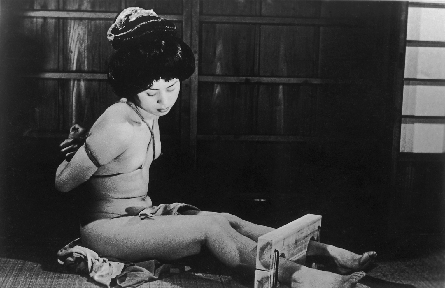 A photo from magazine Yomikiri Romance, dated January 1953, supervised by Seiu Ito.